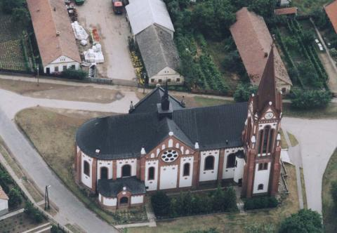 Vállaj, Hungary, aerialphotgraphy